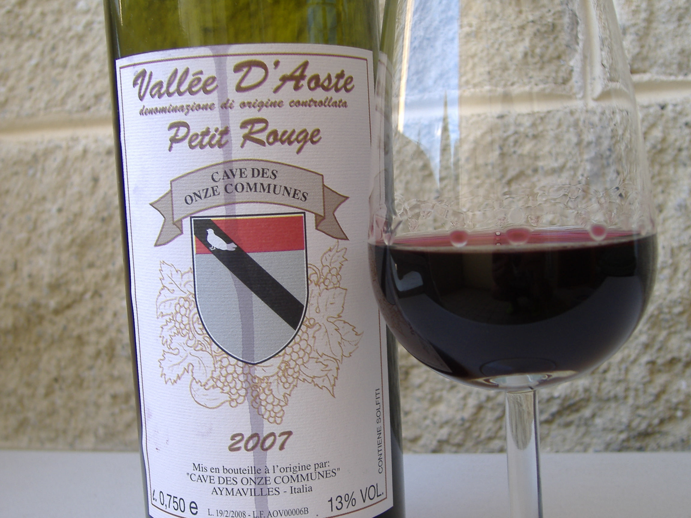 Italian wine from the Valle d'Aosta region of northwest Italy made from Petit Rouge